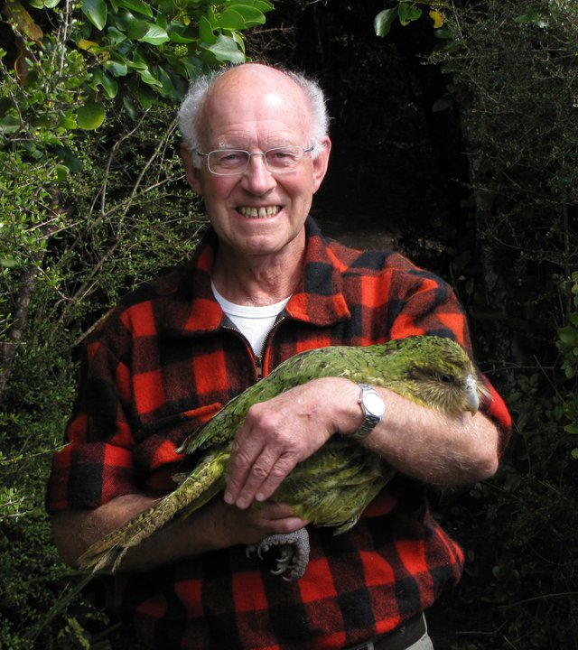 Richard Henry kakapo held by Don Merton, Codfish Island, November 2010.